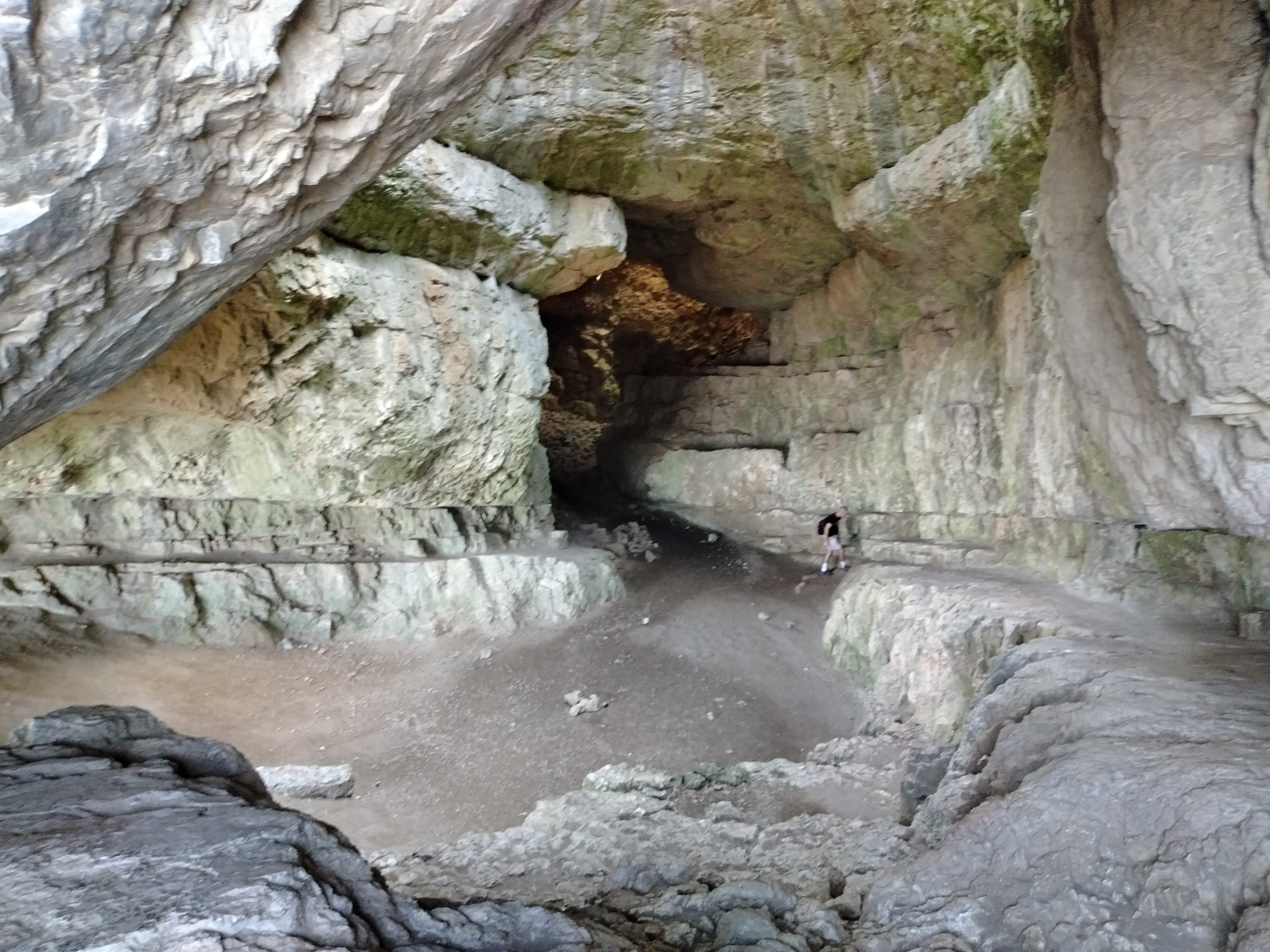 Inside Szelim Cave.